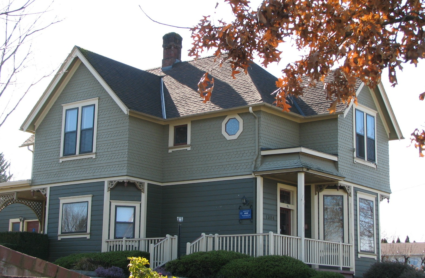 The William Gedamke House at 1304 East Powell Boulevard in Gresham, Oregon, United States, is listed on the US National Register of Historic Places. It is currently in use as a restaurant.